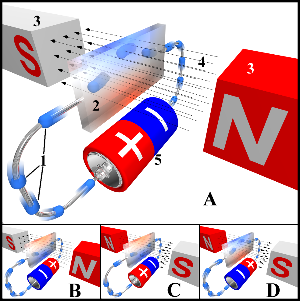 Shows the Hall effect for different directions of electric current and magnetic field. Legend: Electrons (not conventional current!) Hall element, or Hall sensor Magnets Magnetic field Power source In drawing "A", the Hall element takes on a negative charge at the top edge (symbolised by the blue color) and positive at the lower edge (red color). In "B" and "C", either the electric current or the magnetic field is reversed, causing the polarization to reverse. Reversing both current and magnetic field (drawing "D") causes the Hall element to again assume a negative charge at the upper edge. Rendered using POV-Ray. The scene description "code" shown below supports rendering all of the four "situations" portrayed in the image - see the comment given in the code in the page discussion. The four images were subsequently combined, and the numbers and letters added, in a graphics software package.